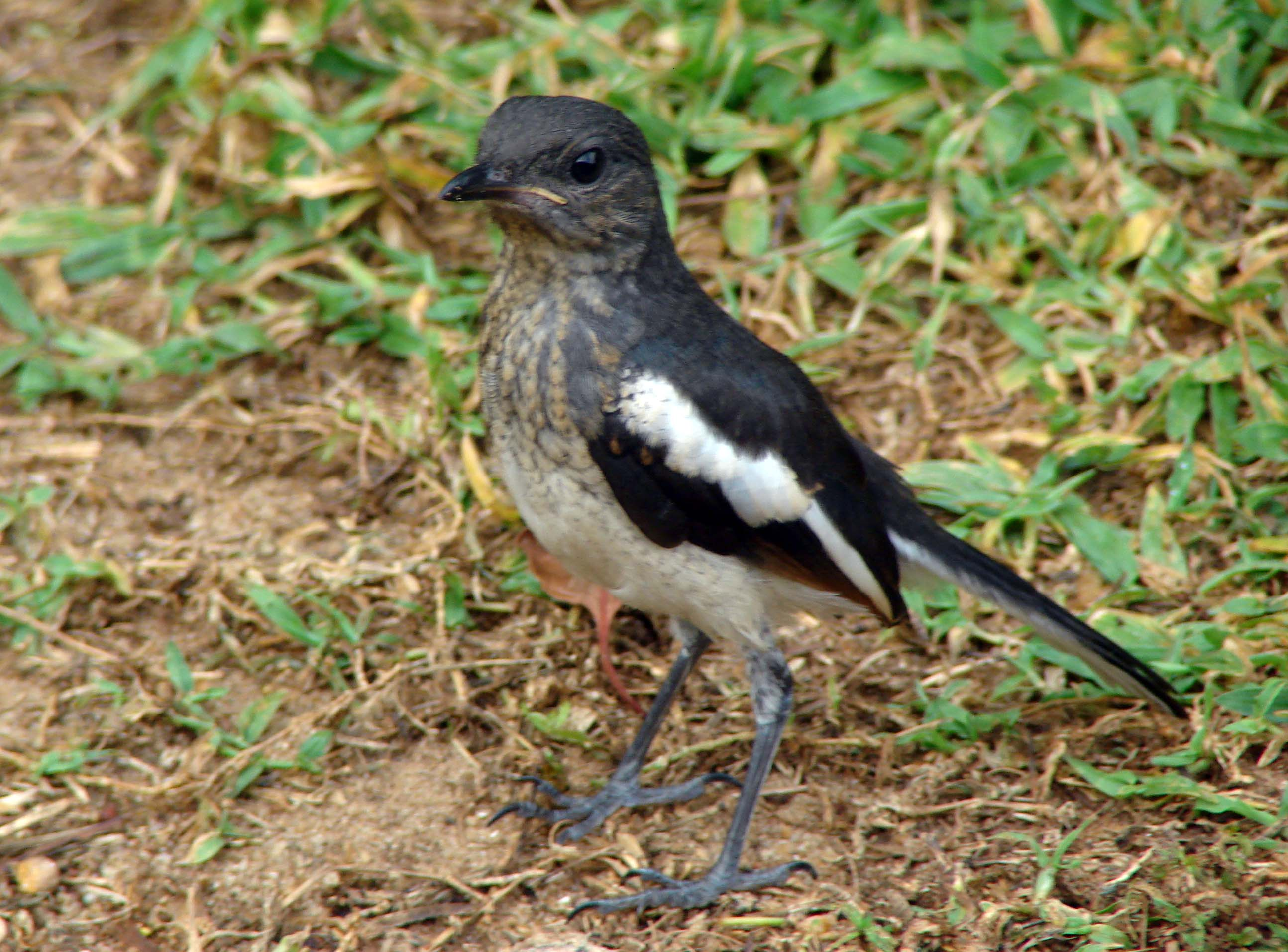 A juvenile Oriental Magpie Robin in Dharga Town, Sri Lanka.